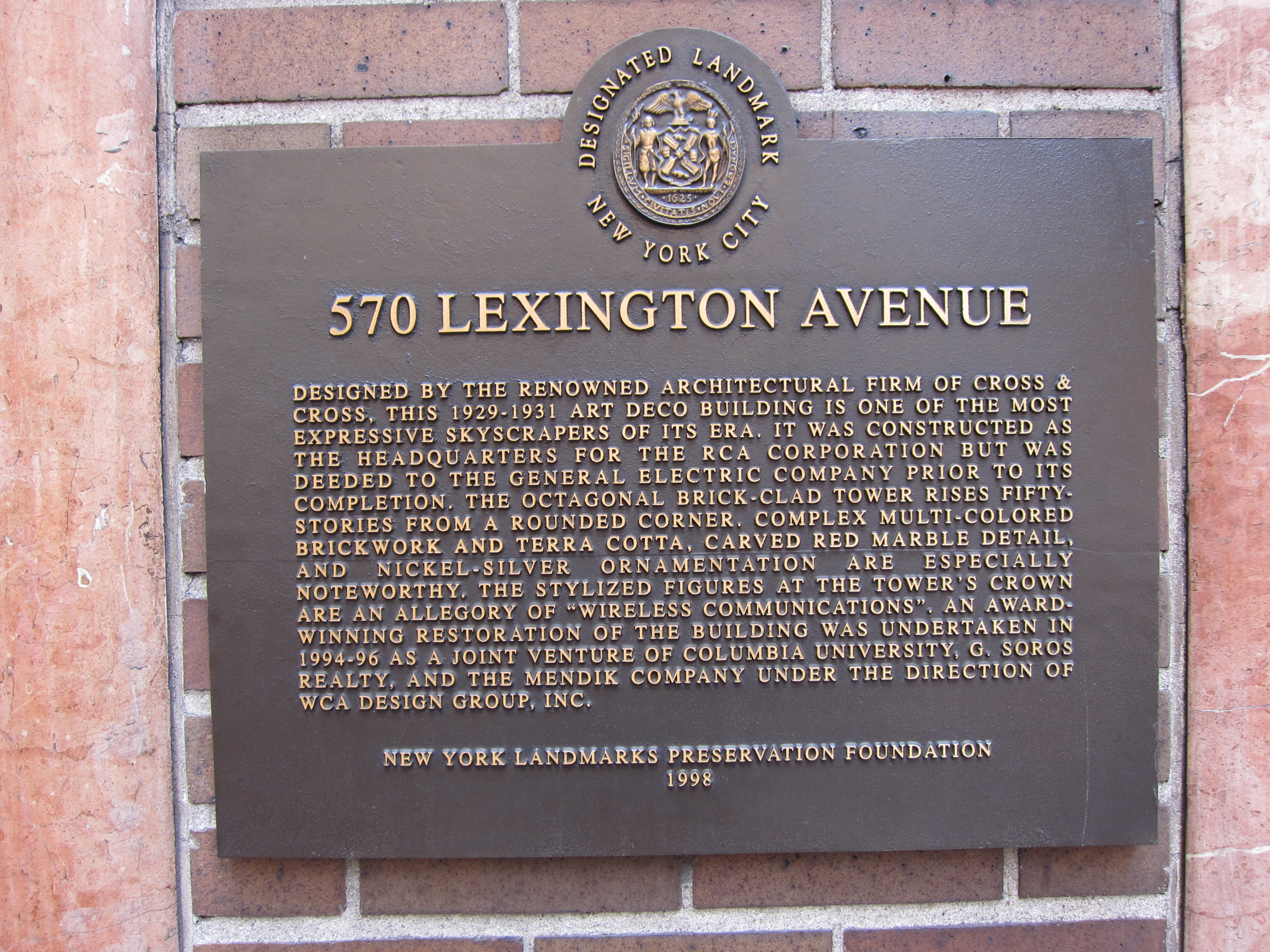 Plaque at 570 Lexington Avenue building also known as the General Electric Building, 570 Lexington Avenue, Manhattan, New York.